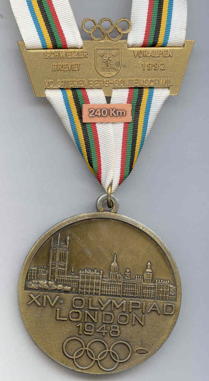 Medal for the Swiss Cyclists Alpbrevet